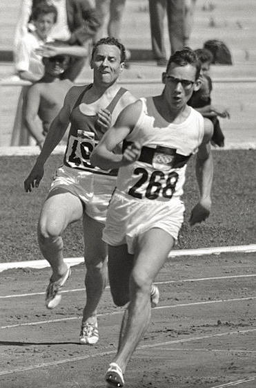 The first round of the qualifications of 400 metres men sprint: Finnish Voitto Hellstén (left) and the German Jochen Reske. Rome, 3 of September 1960.